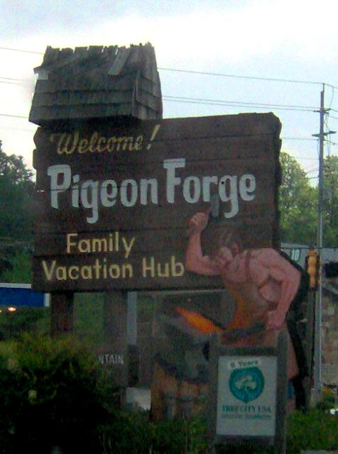 Sign at the entrance to Pigeon Forge, Tennessee.